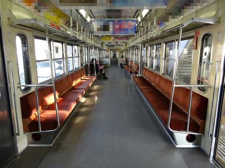 Interior of a Seibu 3000 series EMU